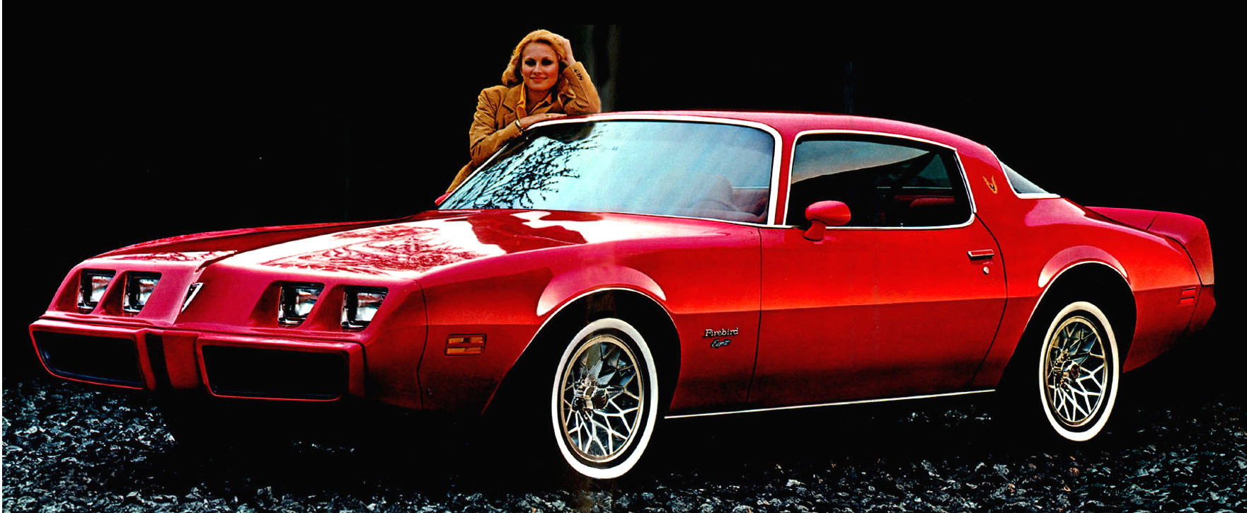 This is the picture of a Firebird Esprit from the Pontiac brochure 1981. The tags and other defects have been removed.